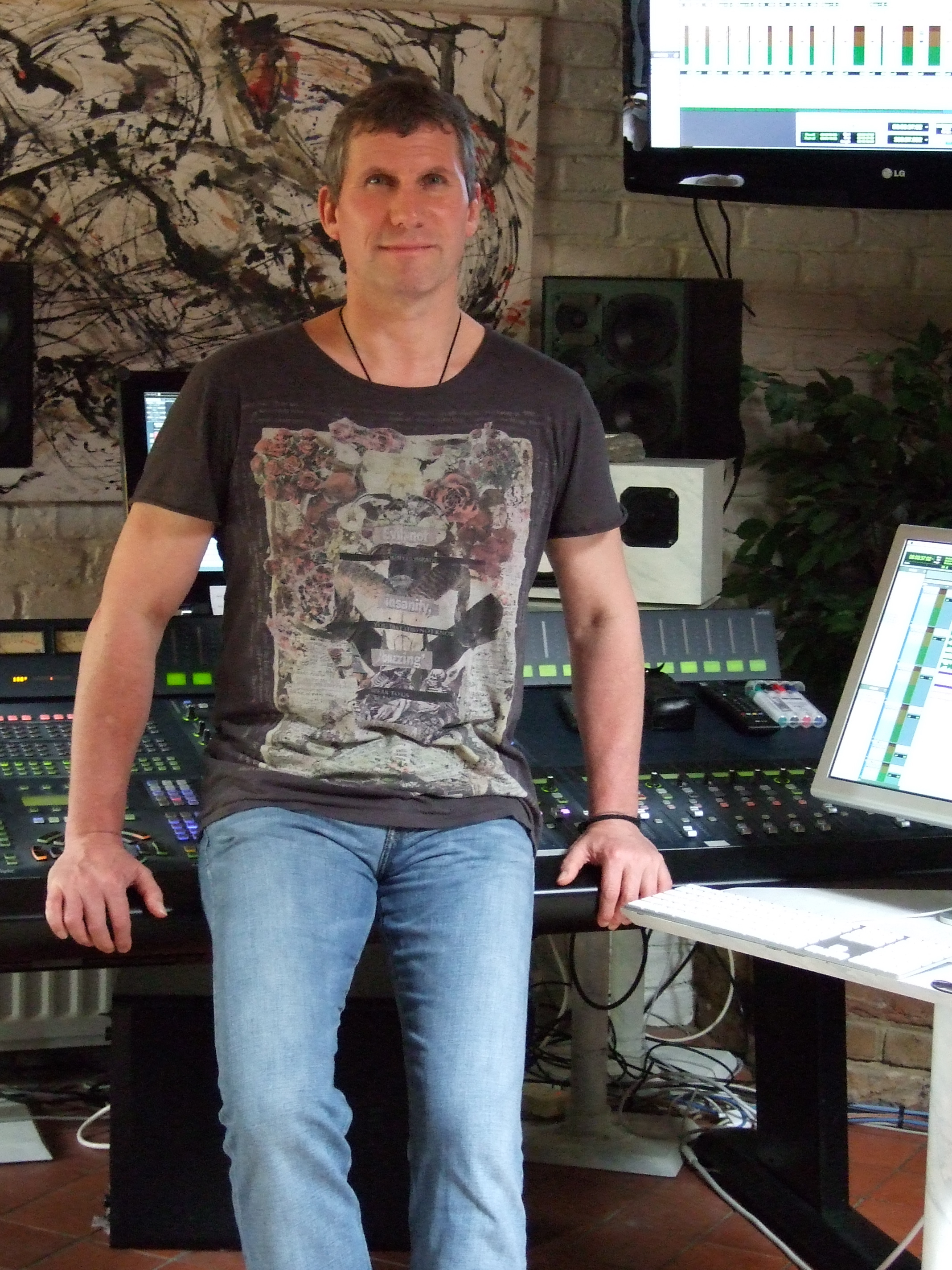 Andy Richards in his studio, Out Of Eden, September 2009 (pic courtesy of Kate Richards) Andy Richards Out of Eden 2009.jpg Free image, CREATIVE COMMONS 2.0 (17. 03.2015) Permission was indeed granted and confirmed in an email by Andy Richards as follows - this email has also been submitted to . Wikipedia editors are more than welcome to contact Mr Richards directly on his email below to confirm this. "From: Andy Richards Date: 20 May 2015 17:50:47 BST To: Ollie Dewis , Ian Abbott Subject: Re: Wiki Images Hi Ollie Regarding images on the Andy Richards Wiki page Picture #1: This picture was taken in September 2009 by my wife, Kate, at my request on my iPhone. It was taken in ‘Out Of Eden’, my current music studio. The image belongs to me, despite the fact that Kate took it. If you like I ‘commissioned’ it. I am the copyright owner of this image and I give complete permission for the use of this on Wikipedia and anyone else who might wish to copy it. Kate concurs with this."